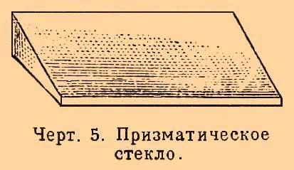 Illustration from Brockhaus and Efron Encyclopedic Dictionary (1890—1907)